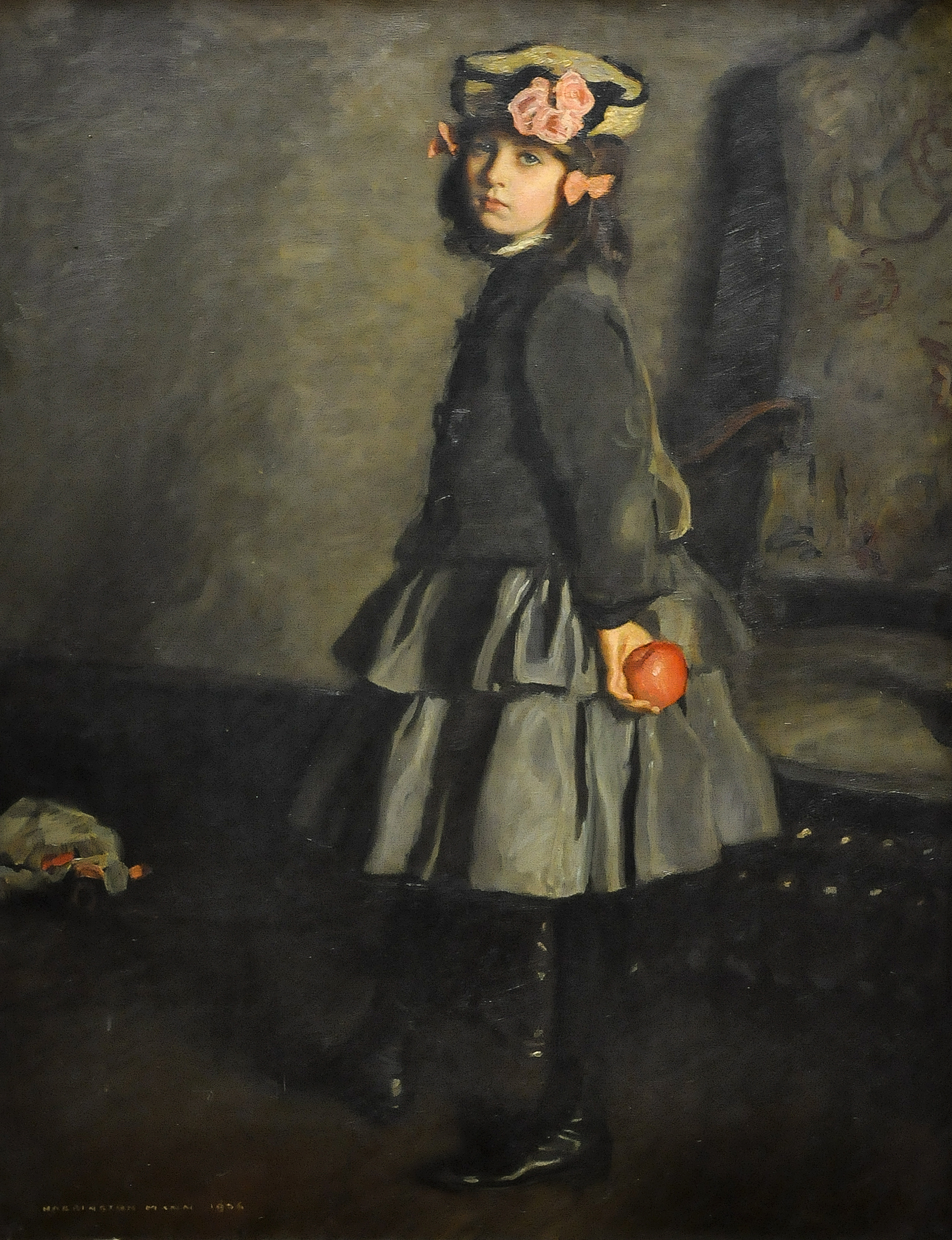 Harrington Mann (1864-1937) Cathleen (1906) MSK Gent